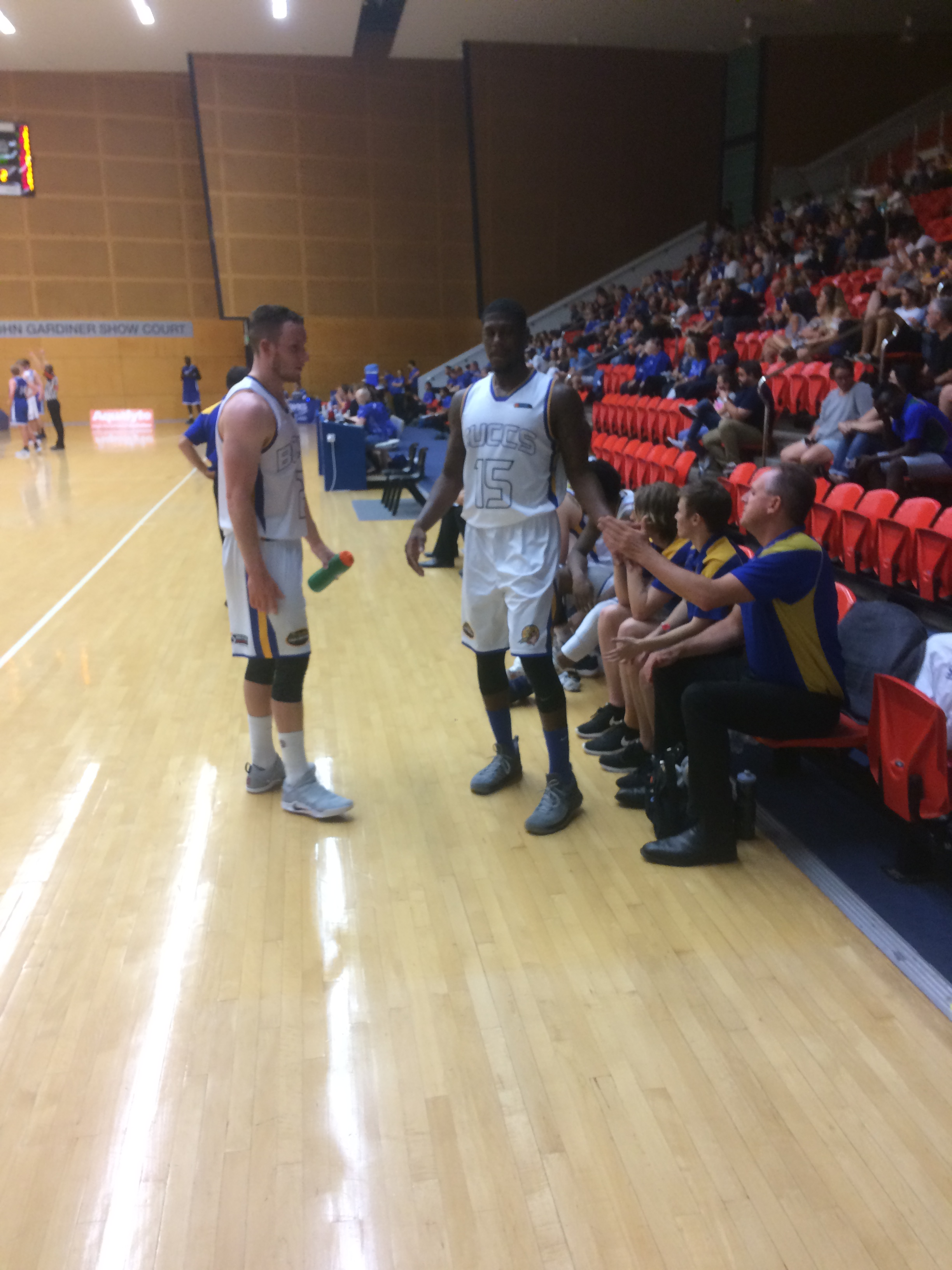 Maurice Barrow with the Geraldton Buccaneers